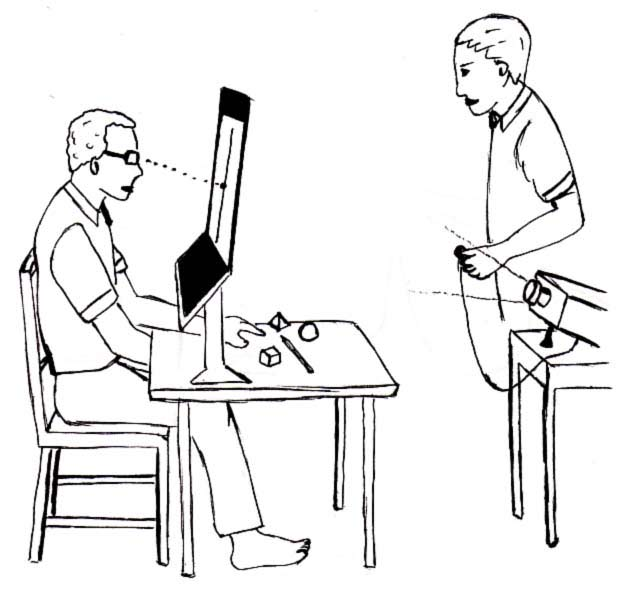 This image was inspired by a maybe copyrighted image, but is here drawn with my own hands for the cognitive psyology wiki book. Wikibooks:Image use policy